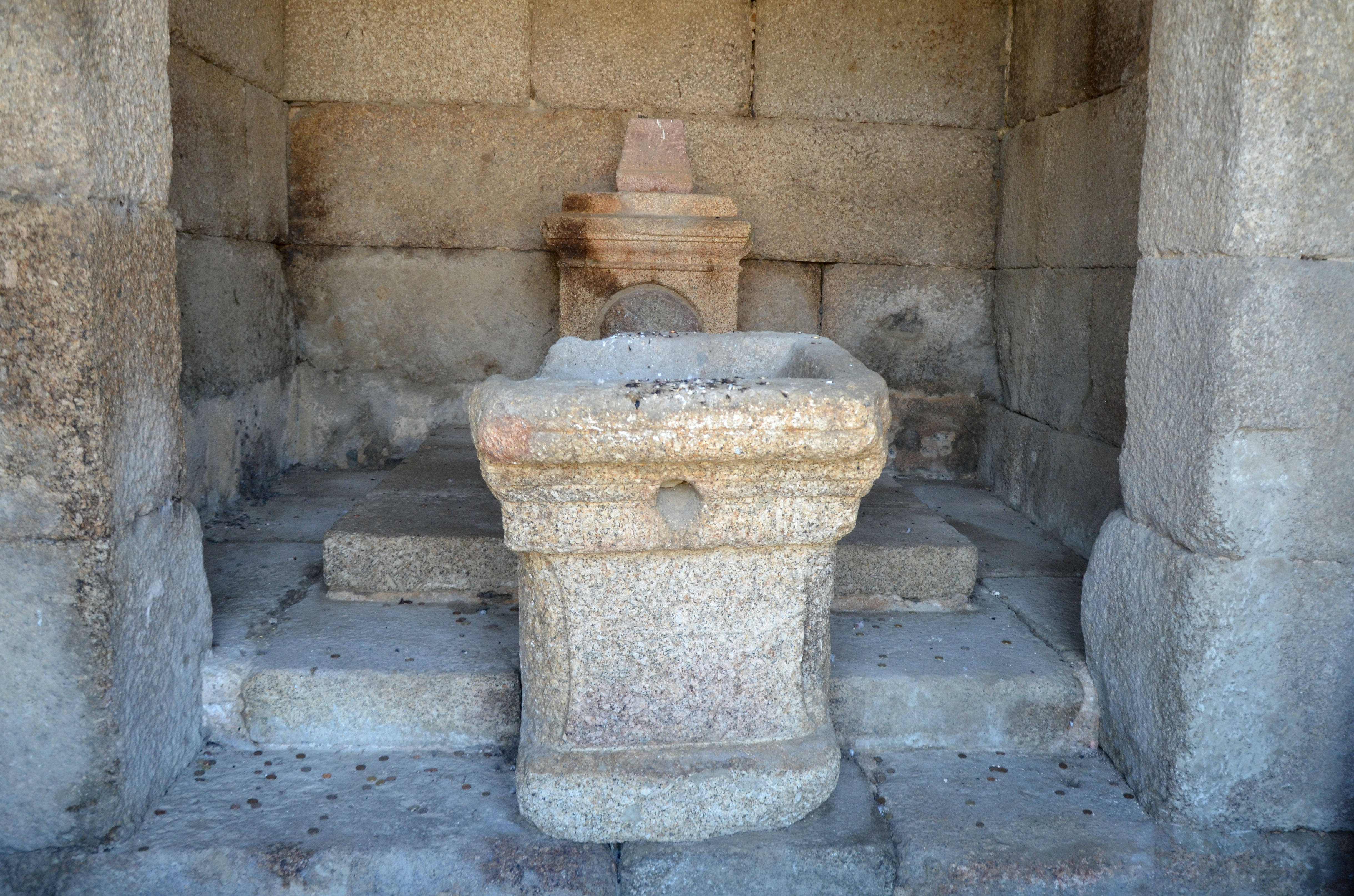 The interior of the small votive temple, distyle in antis, of Tuscan order with a single cella, built by a man named Caius Julius Lacer, and dedicated to the Roman emperor Trajan and the Roman Gods, Spain